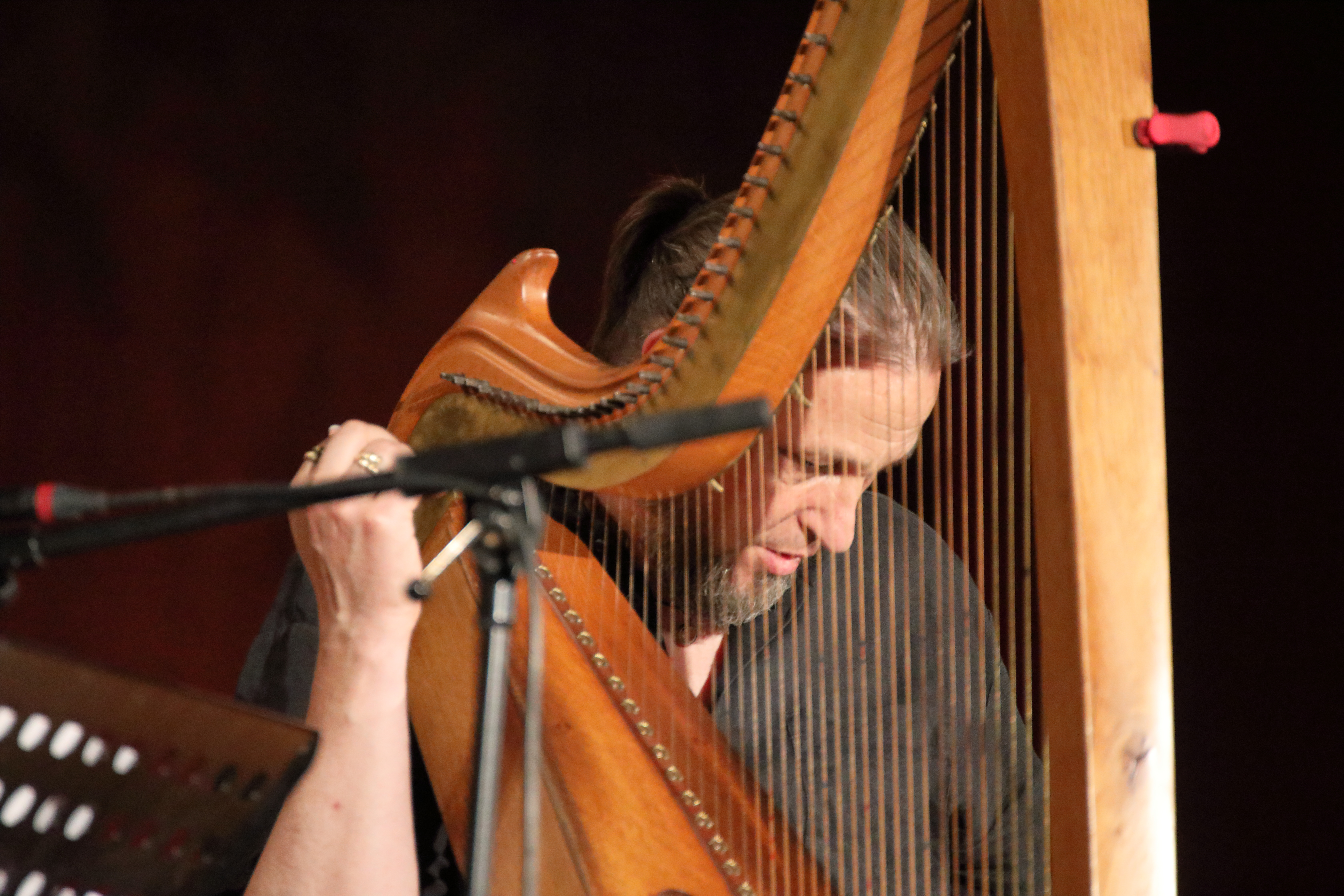 Harpist Jochen Vogel with Supersonus at INNtöne Jazzfestival 2019.